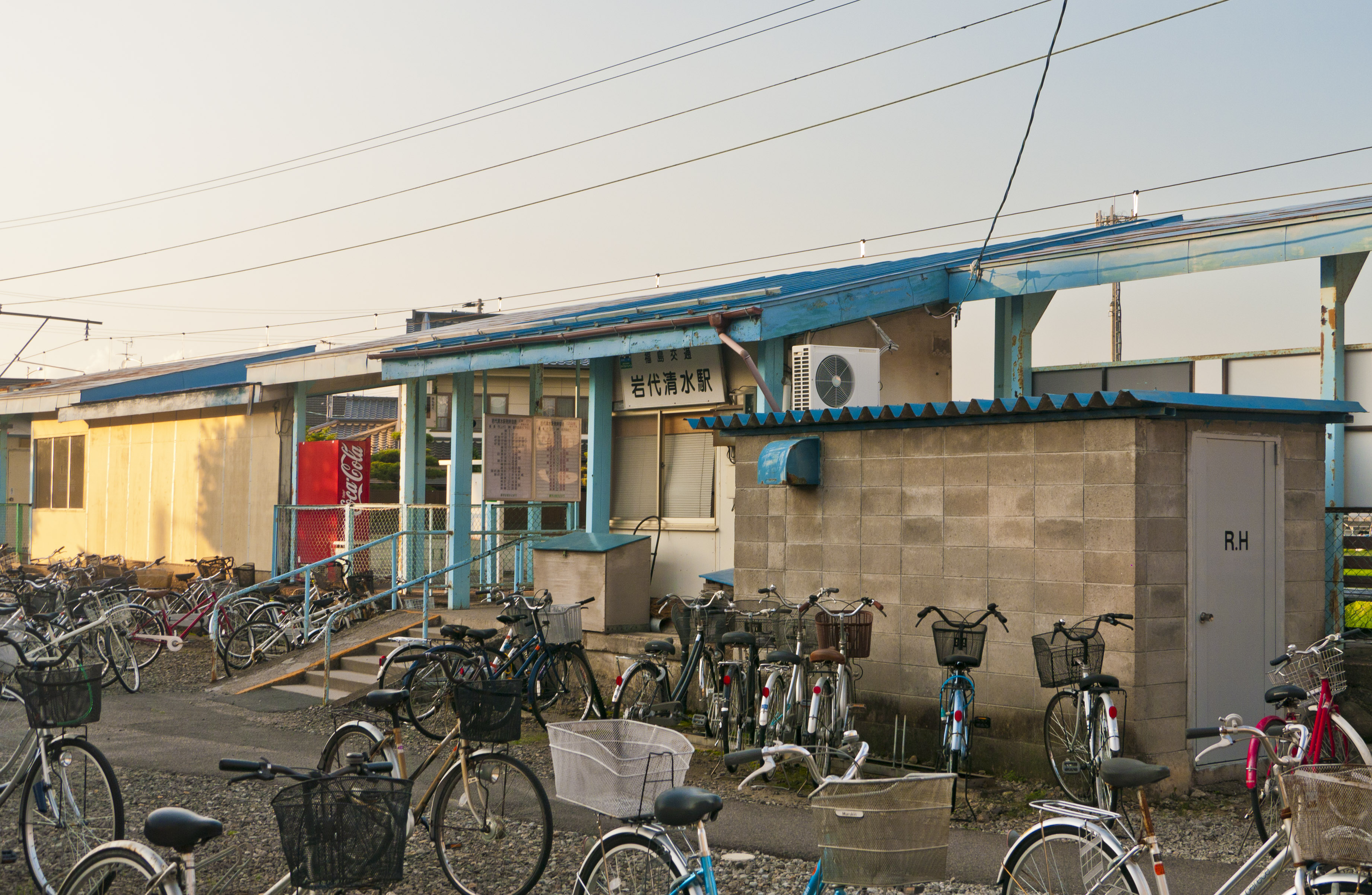 Fukushima Kotsu Iizaka Line Iwashiro-Shimizu Station in Fukushima, Fukushima, Japan